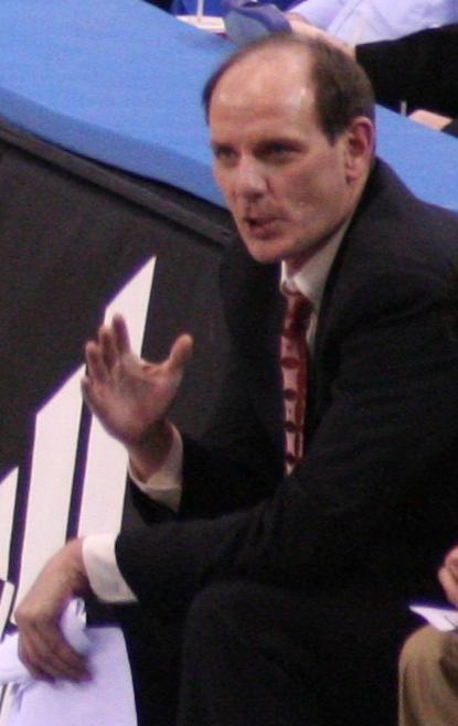 Phil Johnson as assistant coach at USC in 2007, at USC's rivalry game @ UCLA.